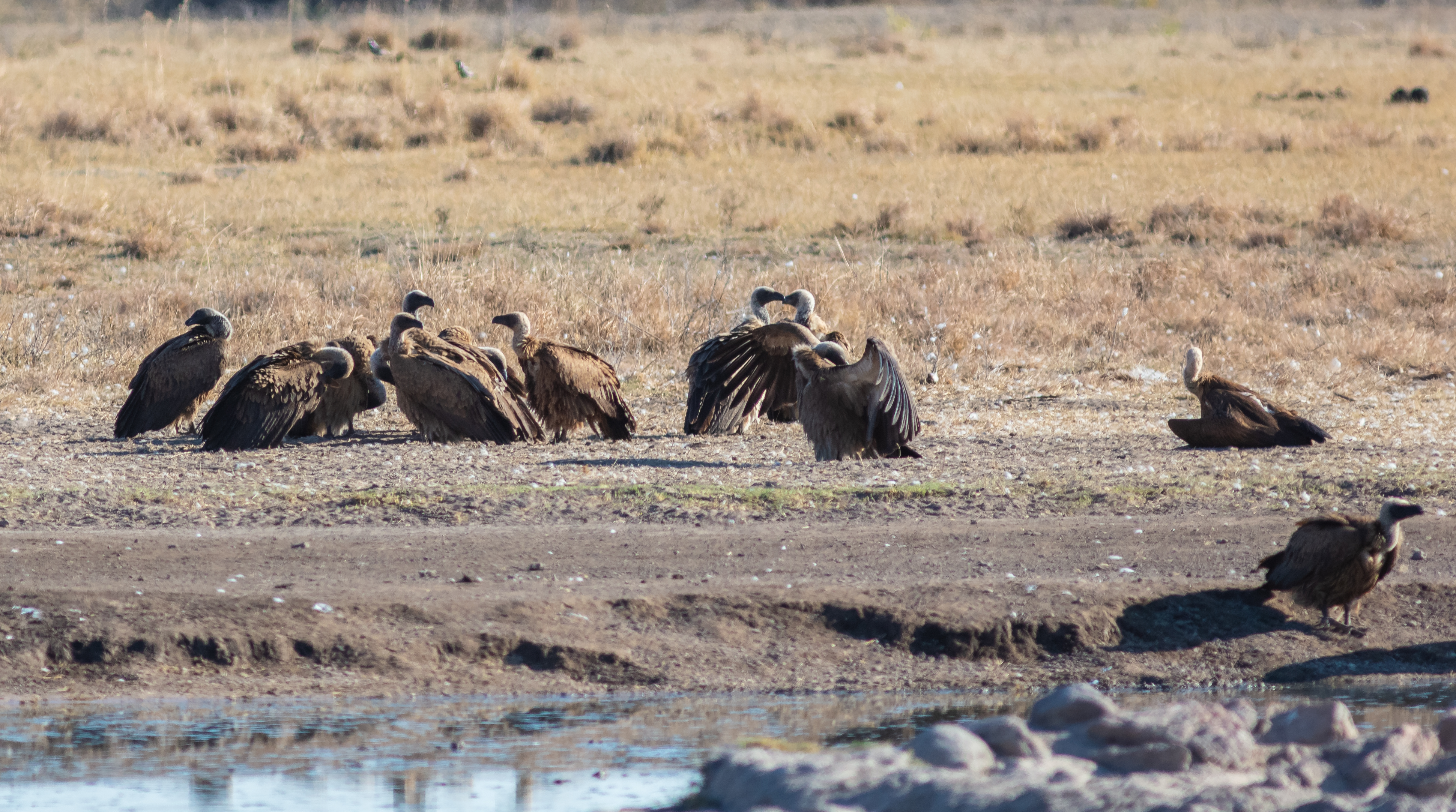 White-backed vultures (Gyps africanus), Khama Rhino Sanctuary, Botswana